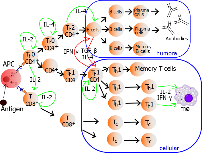 Lymphocyte activation